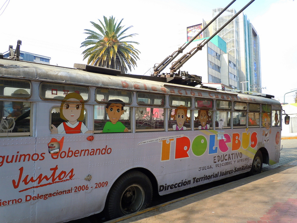 An ex-Japanese trolleybus (formerly of the Kanden Tunnel trolleybus line), painted for use in the Trolebuses Educativos (Educational Trolleybuses) program of Delagación Cuauhtémoc, in Mexico City. The composition of this photograph is misleading. The photo shows the vehicle's right side, not its left side. There are no doors on this side, because in Japan, vehicles drive on the left side of the road, and buses therefore have doors only on their left sides. In this photo, the rear of the trolleybus is just out of frame to the left, and the trolley poles on the roof have been turned (180 degrees) towards the front of the vehicle, the end that is farthest away from the viewer. At left, on the vehicle's roof, one can see the hooks that are intended to hold down the trolley poles when the vehicle is parked.